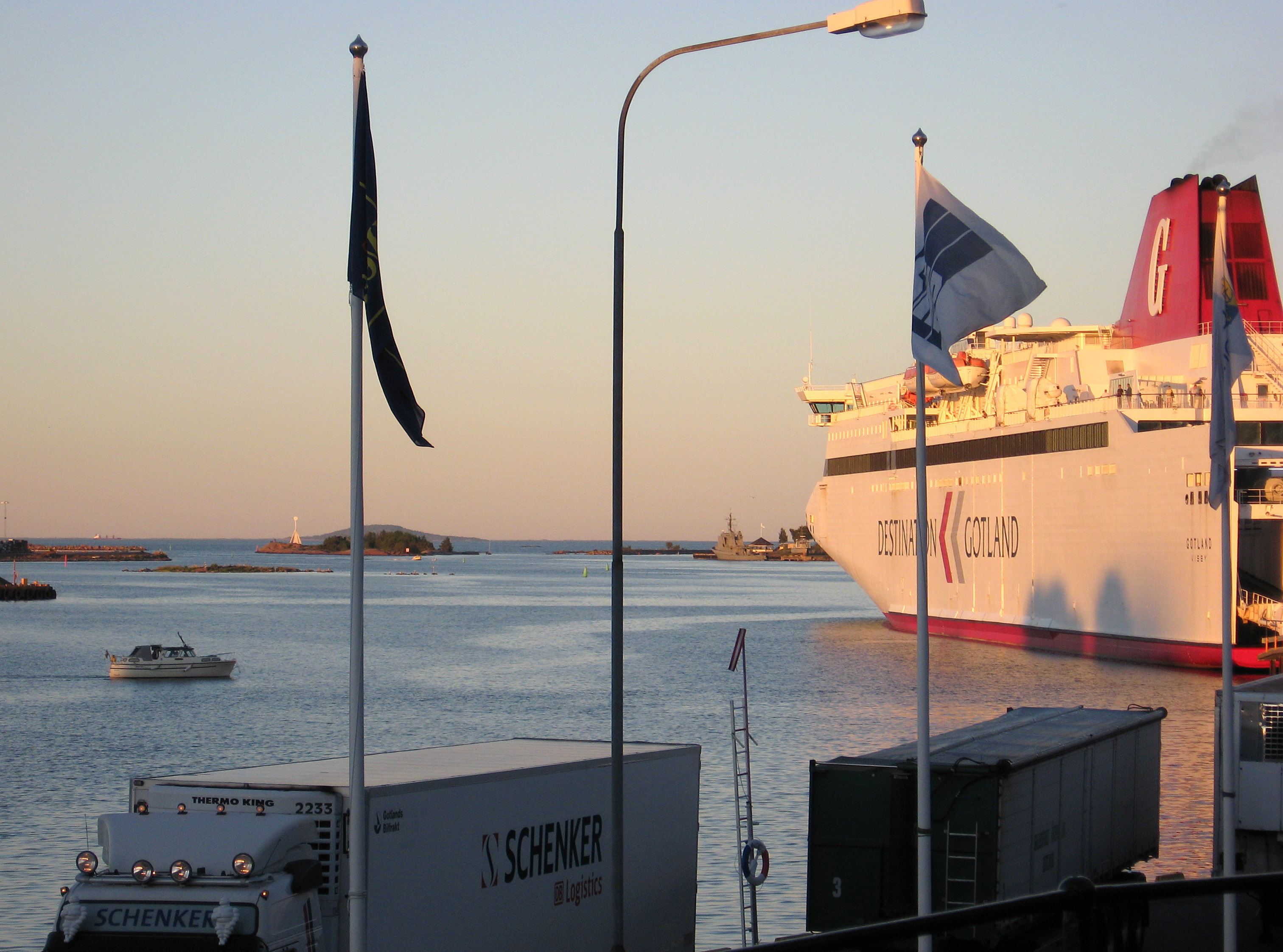 M/F Gotland IMO Number: 9223796 MMSI Number: 265871000 Callsign: SGPI Length: 196 m Beam: 26 m